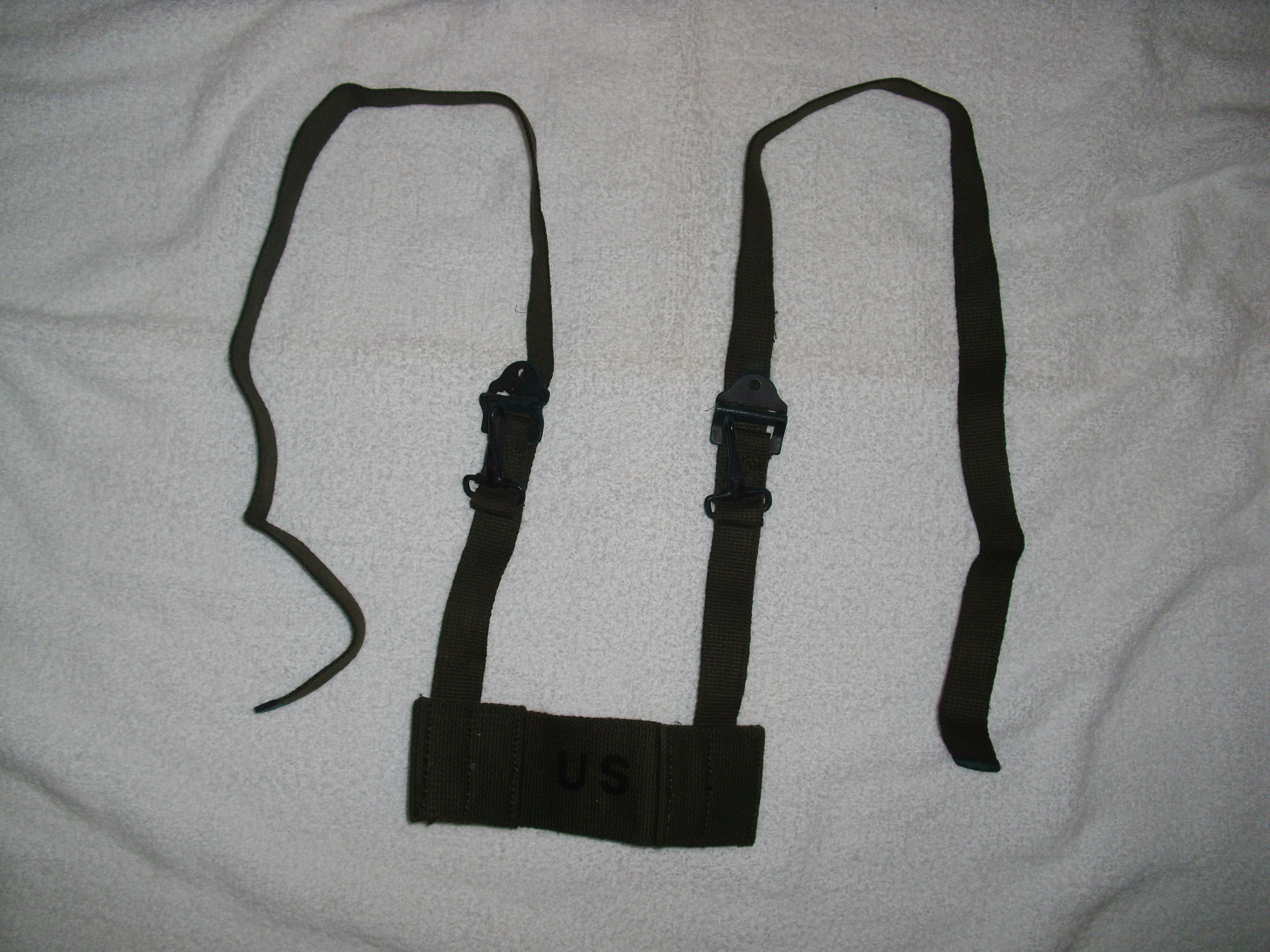 Adaptor, pack, field M1956